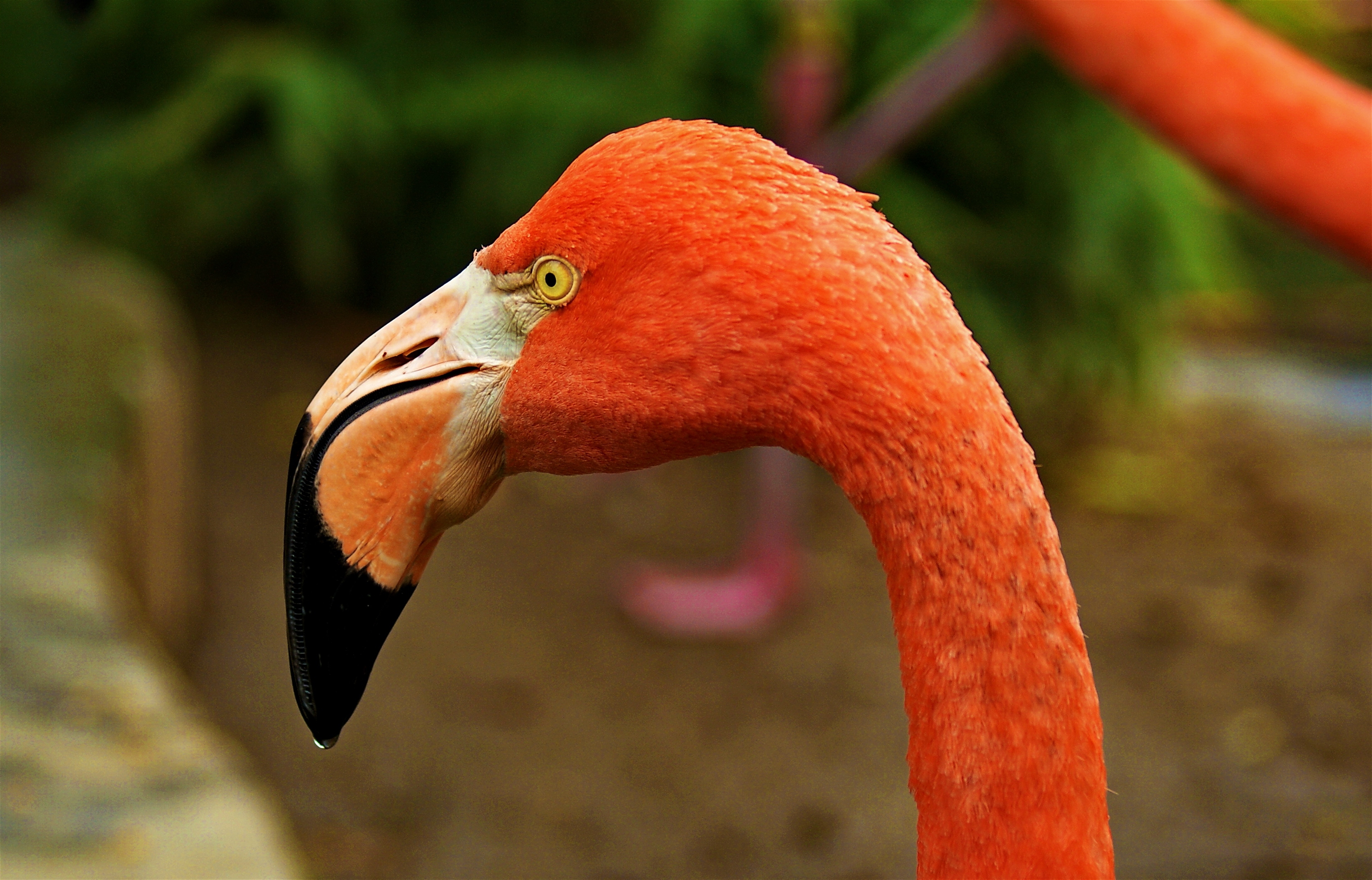 American Flamingo at Sacramento Zoo, USA.